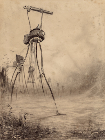 This drawing was made by henrique alvim correa showing a martian tripod line as well as one of them holding a gas cannon filled with poison gas